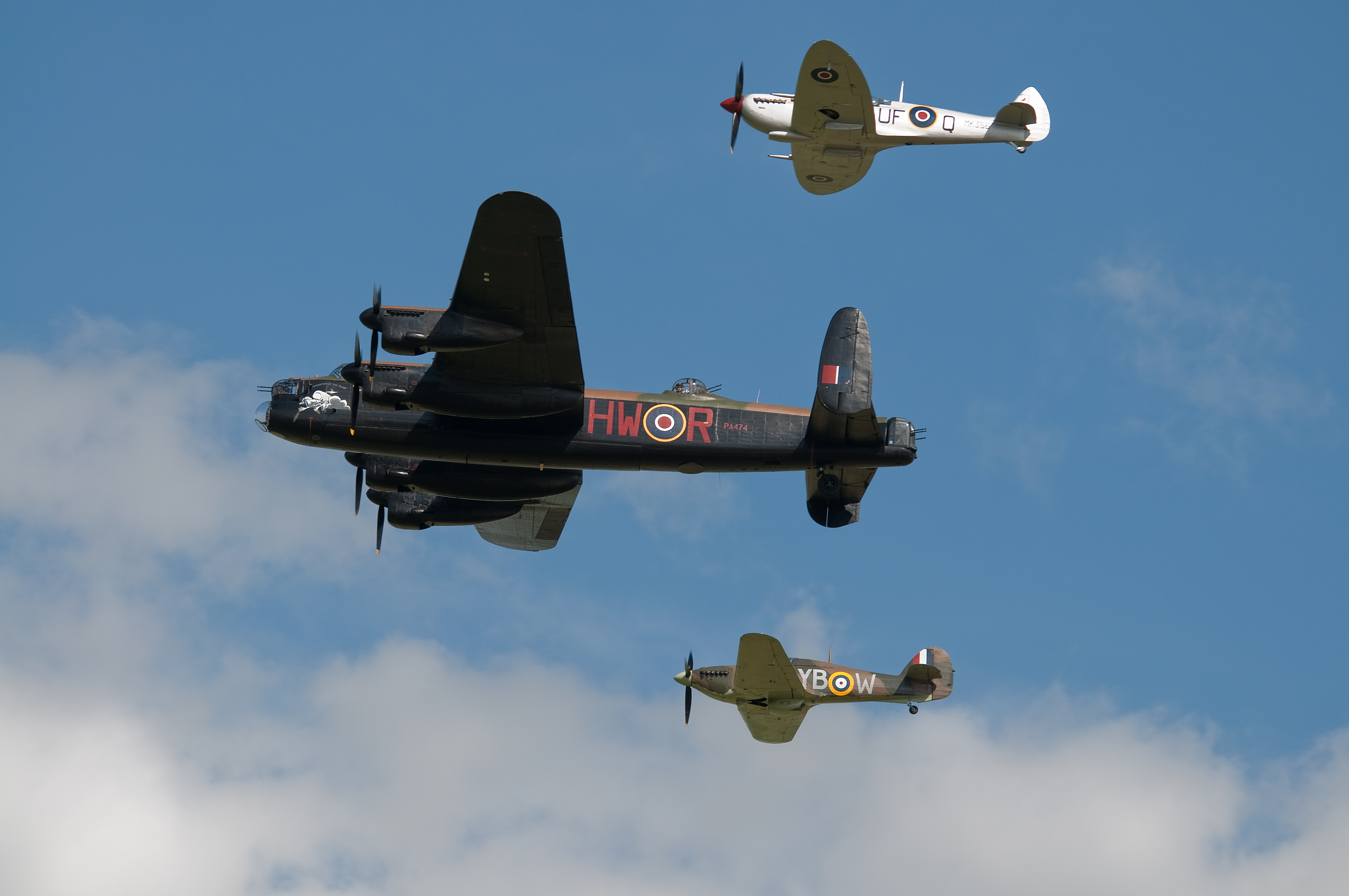 Battle of Britain Memorial Flight at Waddington Airshow 2010